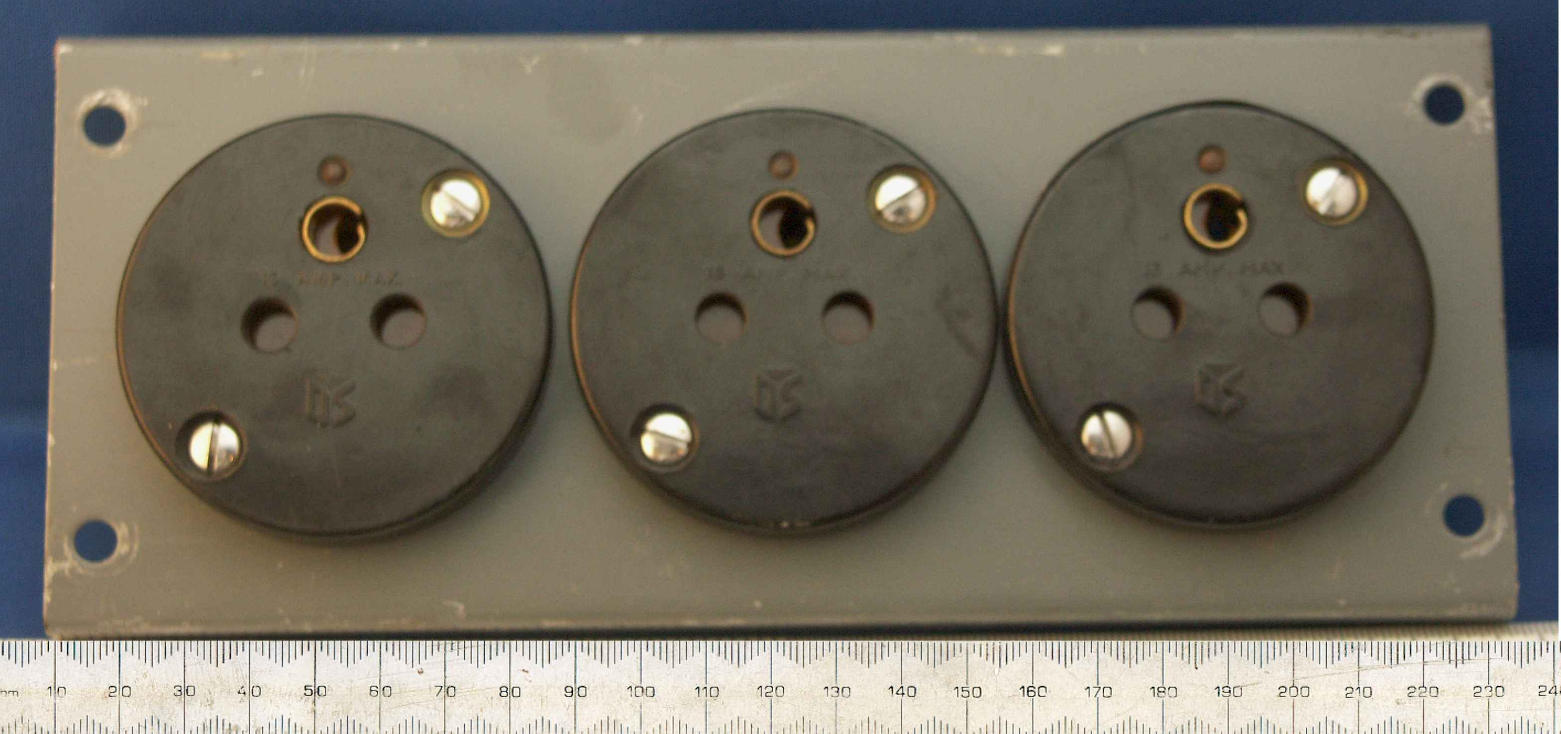 D&S socket - Dormond & Smith Used by the BBC for technical supplies for many years The line pin of plug is a fuse which unscrews. These had a habit of coming in unscrewed and remaining in the socket. Modified from to show a ruler with SI units as required by the Wikipedia style guide (